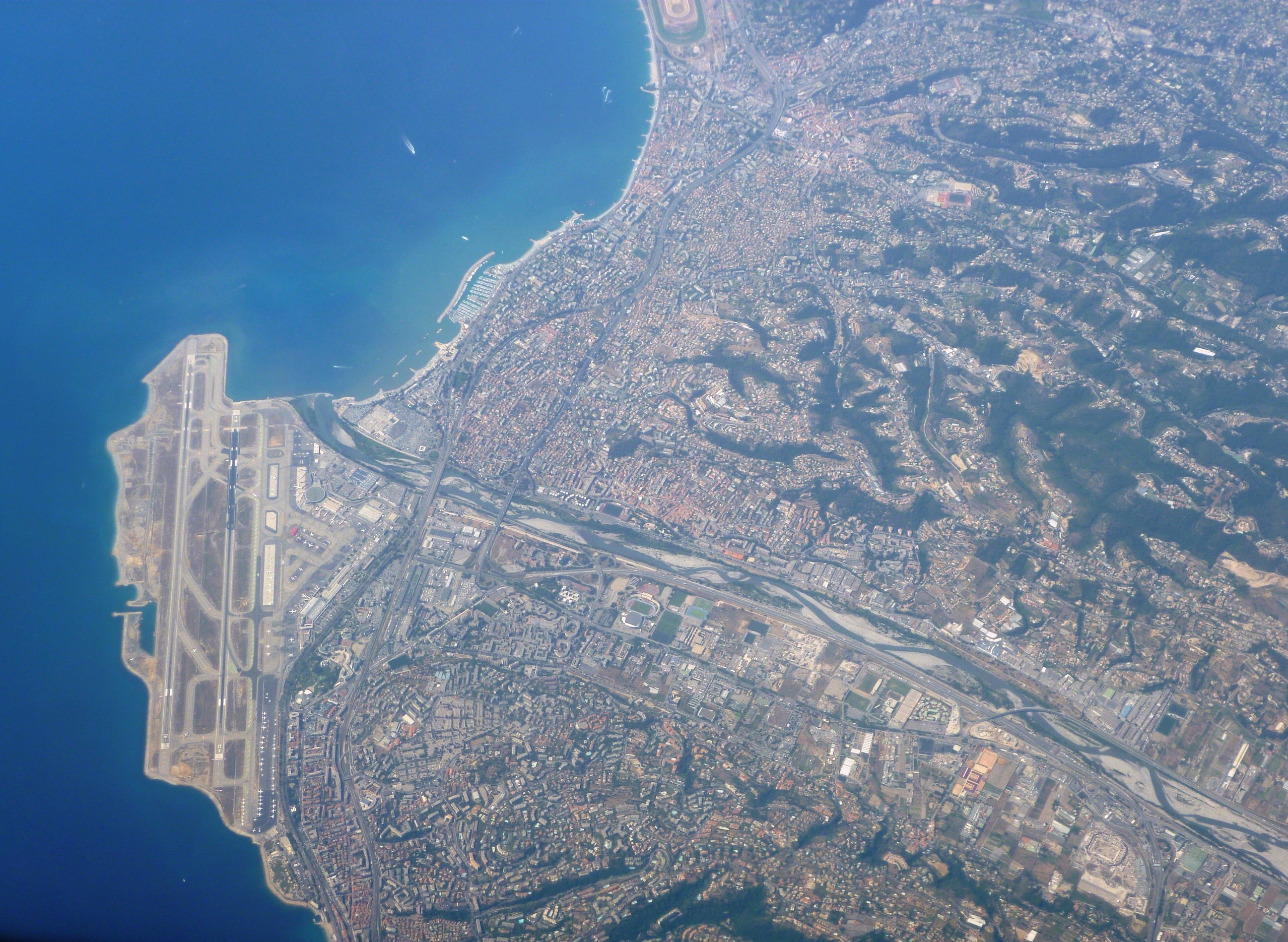 Nice Côte d'Azur Airport from the air. The airport is orientated along a north-east south west axis, with the former at the bottom of the photograph.